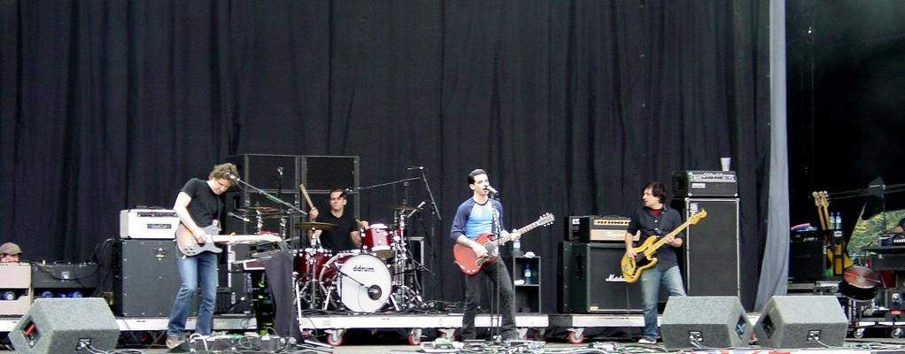 Dashboard Confessional. I finally got to see them after four and a half years of trying to catch them live in the UK. They were excellent and really played to the crowd. Cropped by riana_dzasta to remove crowd and focus on band.